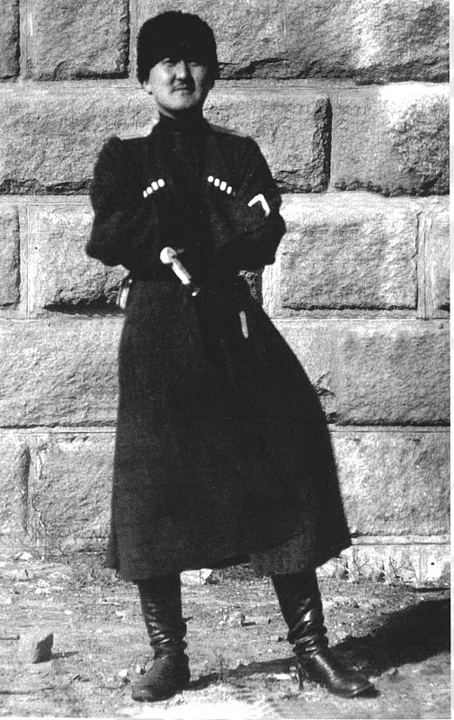 Danzan Davidovitch Tundutov